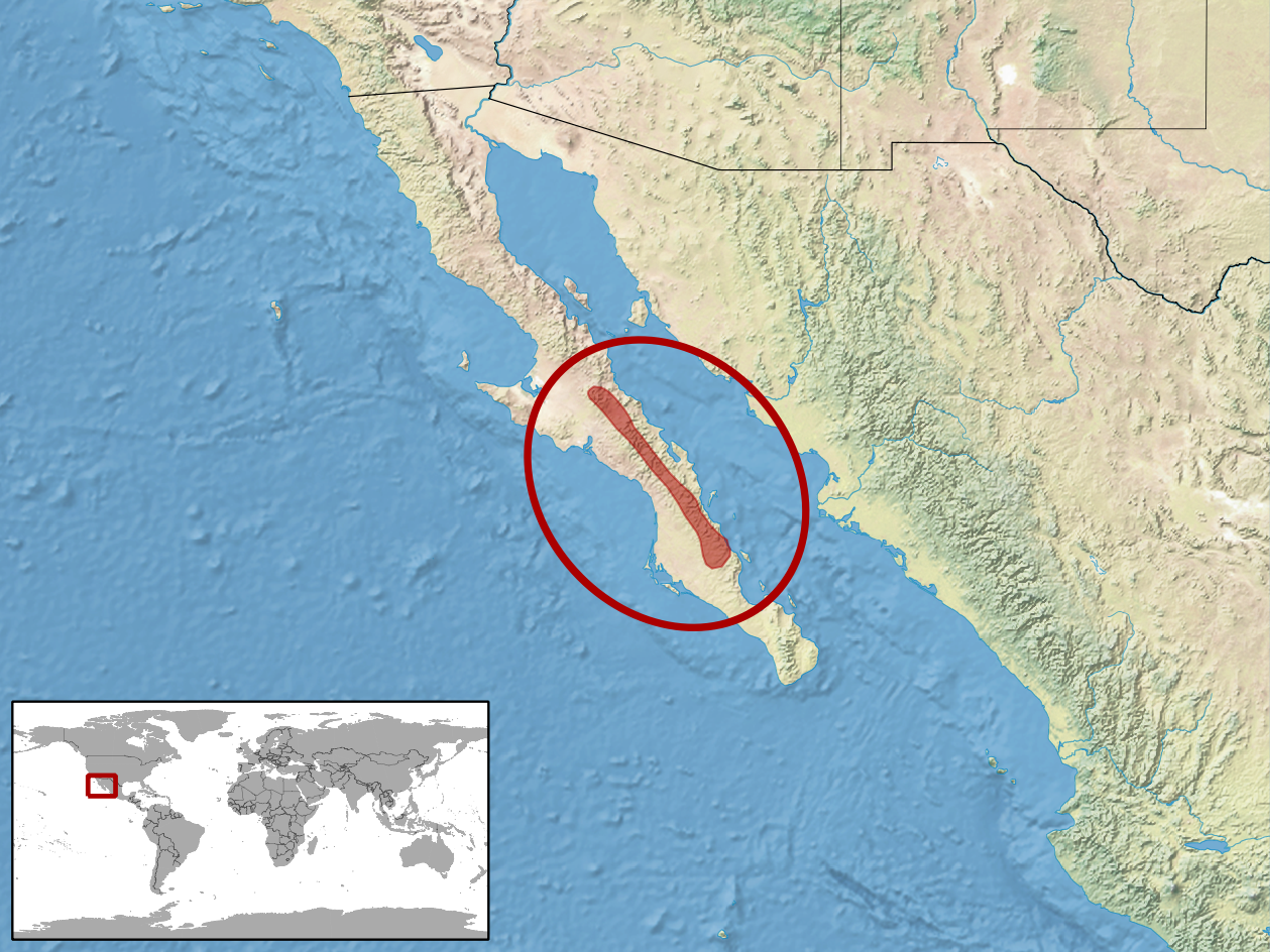 geographic distribution of Elgaria velazquezi (Native: Mexico)